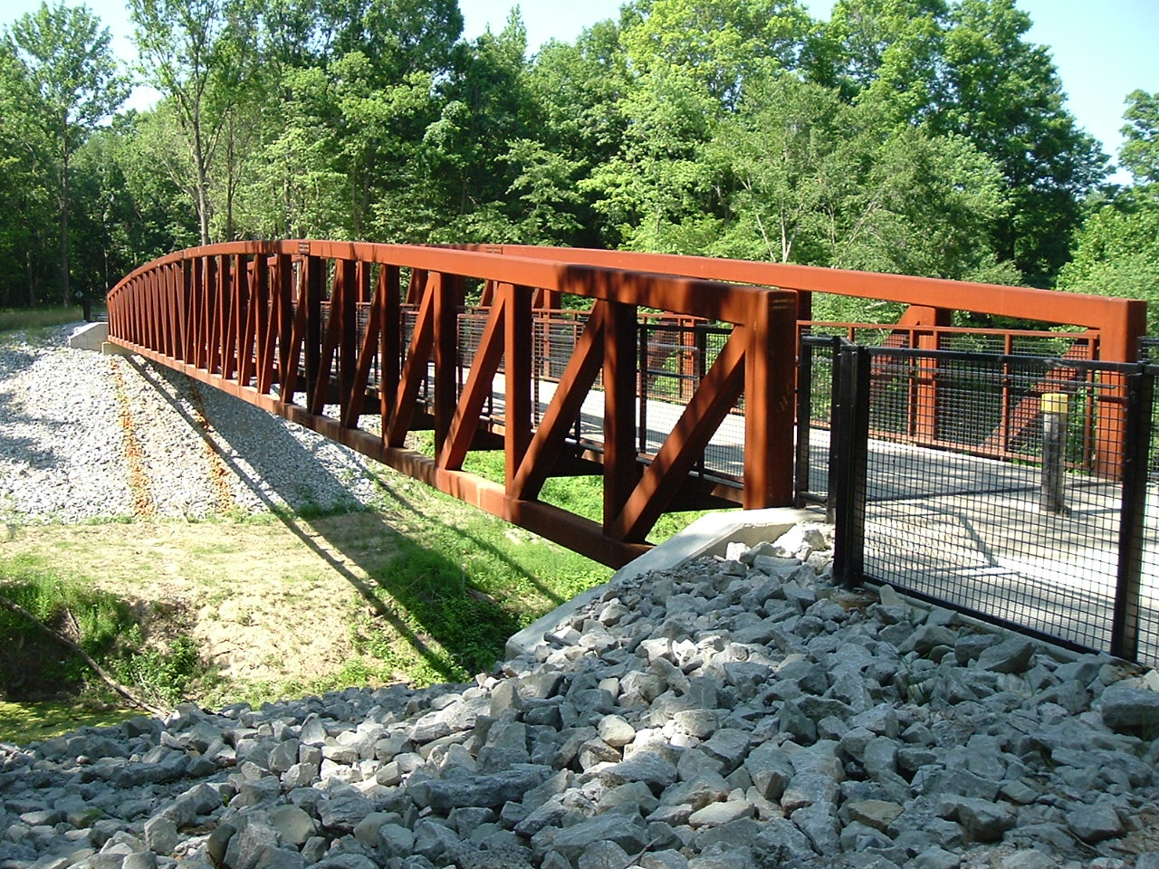 Taken by uploader, all rights released